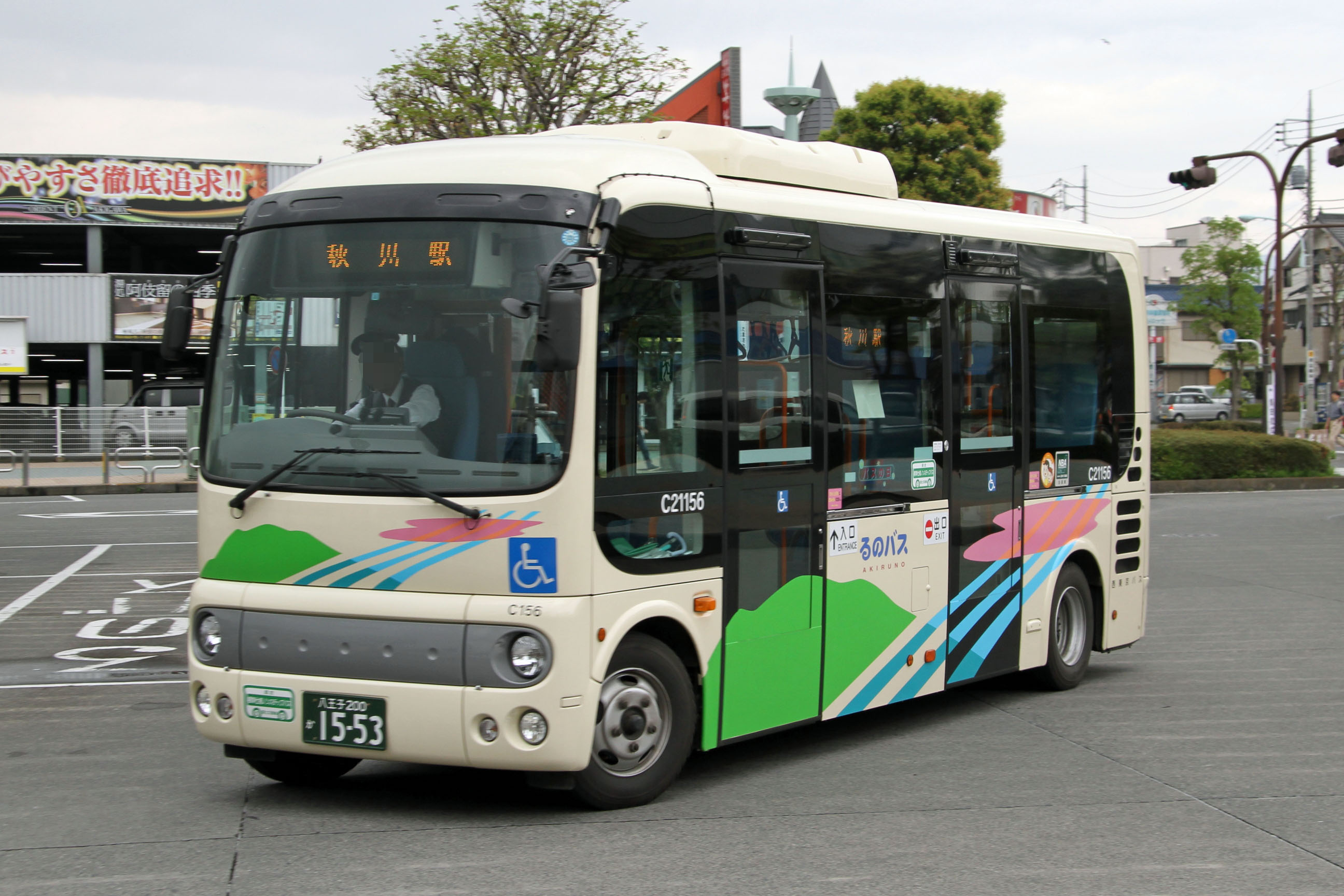 Akiruno City Community Bus "Runobus" あきる野市コミュニティバス「るのバス」